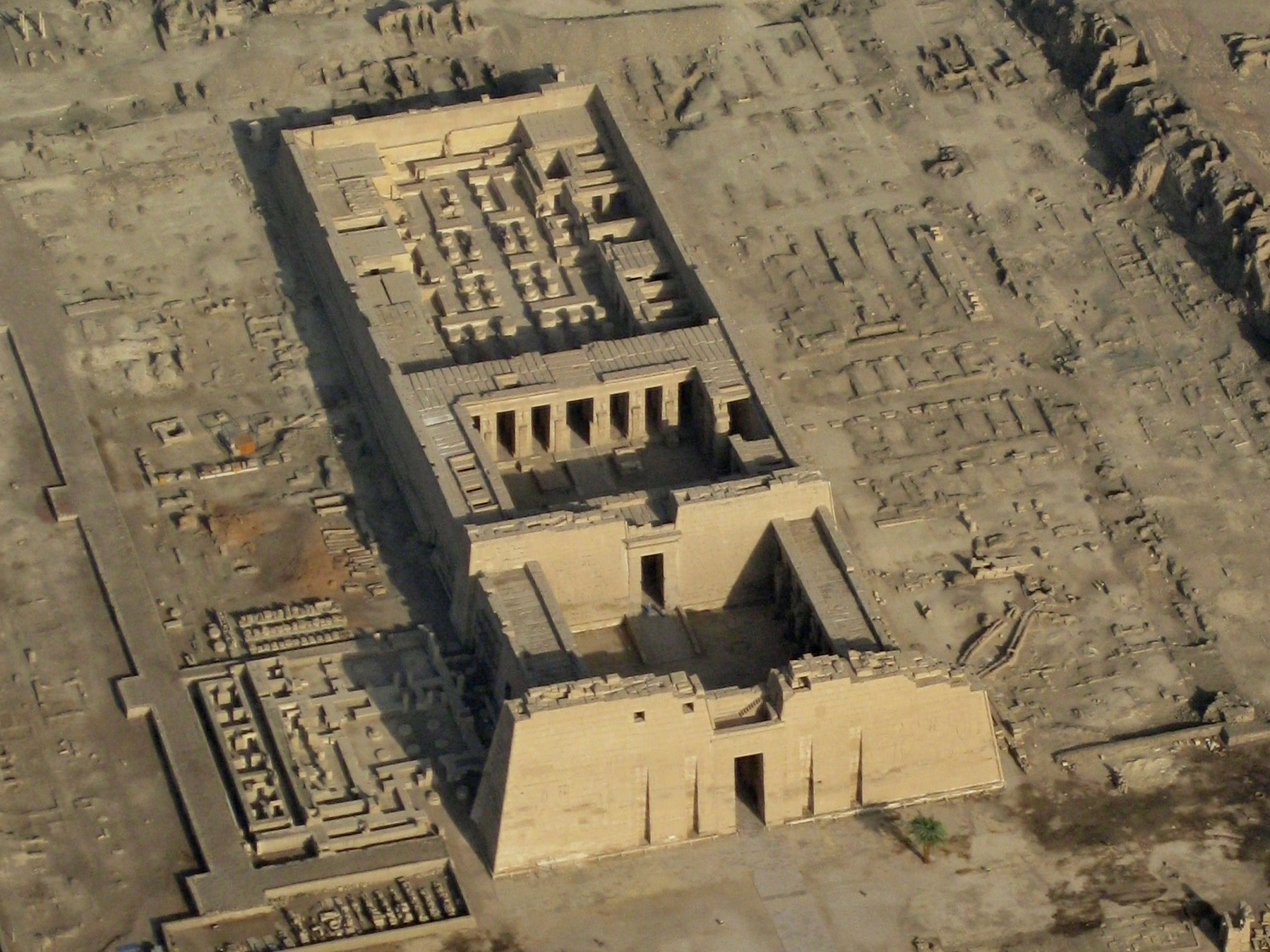 Temple of Rameses III - Medinet Habu